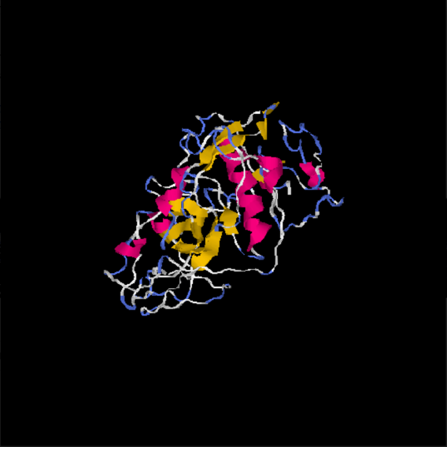 I-TASSER representation of C11orf42 protein